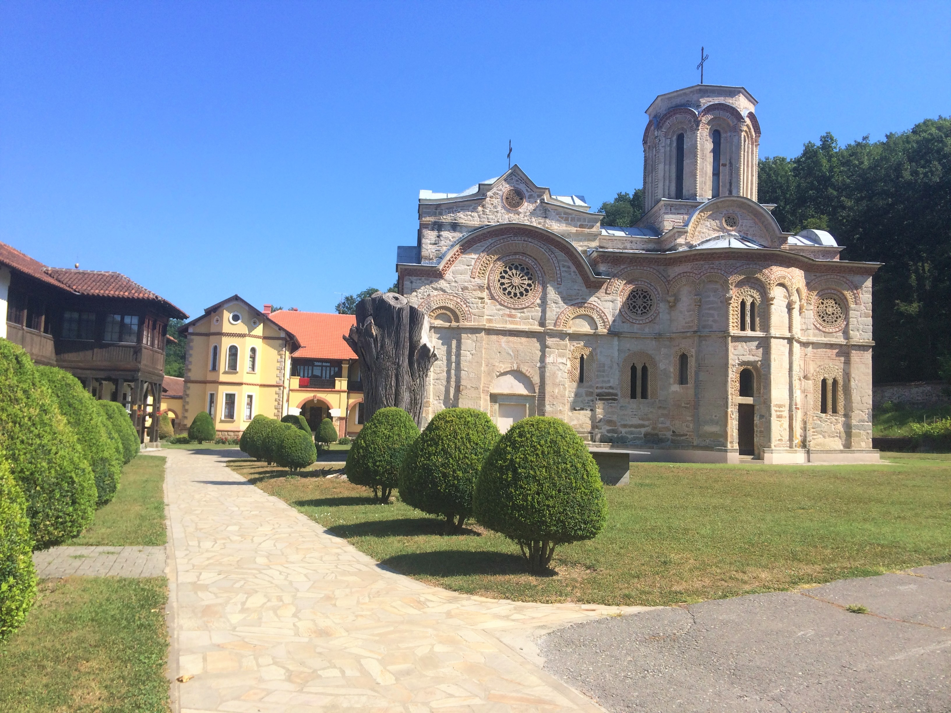 Manastir Ljubostinja